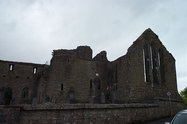 Ruins of Cong Abbey, County Mayo.